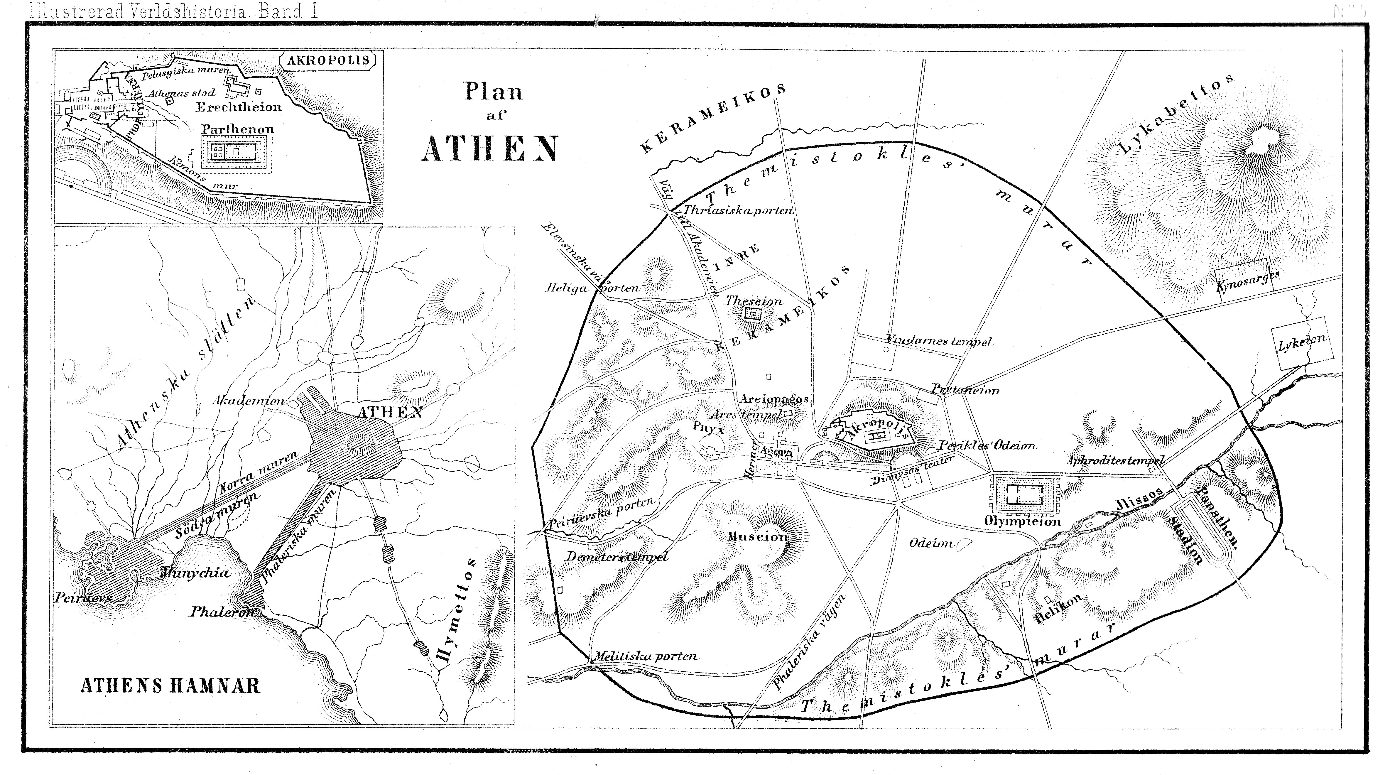 Map from "Illustrerad verldshistoria utgifven av E. Wallis. volume I": The Achaemenid Empire, 500 BC.